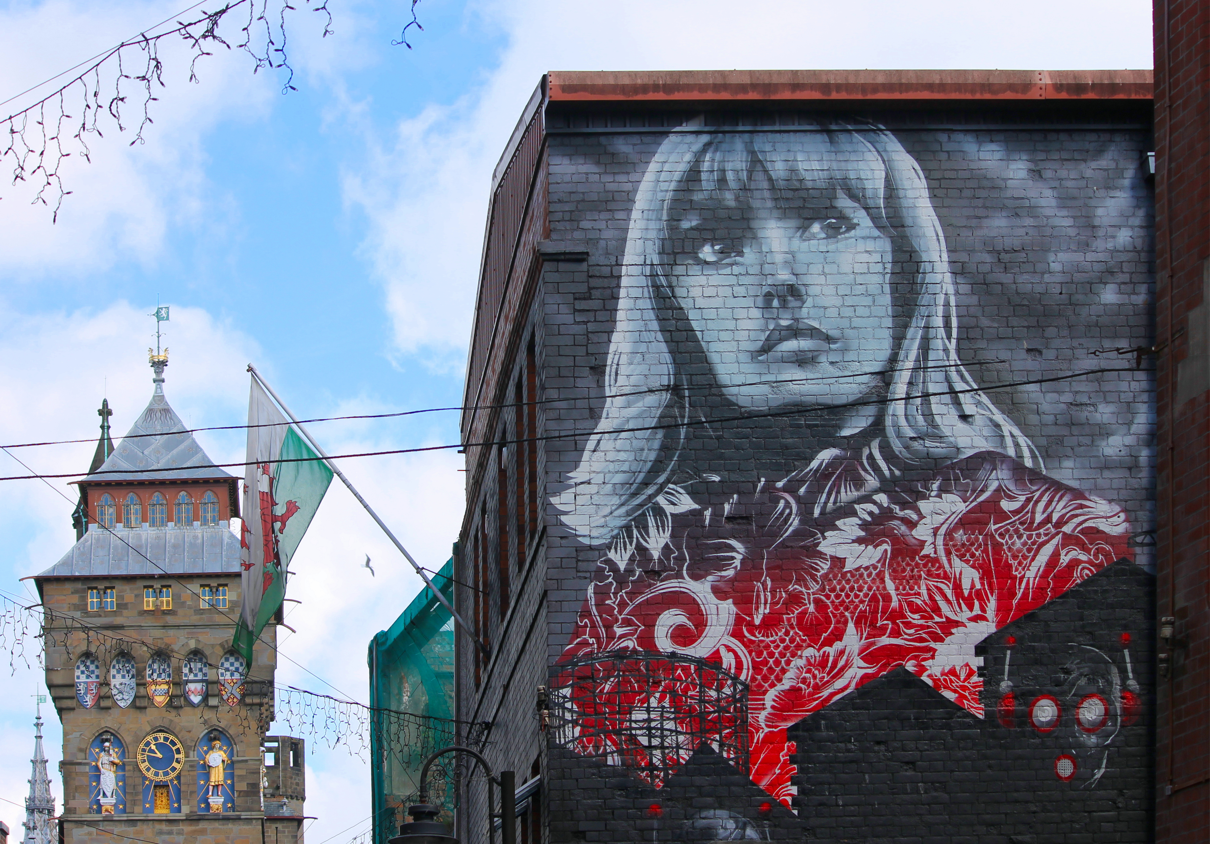 Mural at Womanby St, Cardiff, Wales by Mark James in celebration of Gwenno Saunders and her album 'Y Dydd Olaf' ('The Last Day') which was based on a sci-fi Welsh novel of the same name by Owain Owain written 1967-8 and published by Gwasg Gomer in 1976.